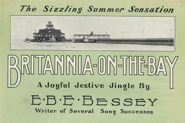 The sizzling Summer Sensation 'Britannia On The Bay' by E.B.E. Bessey 1909. The panoramic photo is of the Britannia Boathouse Club clubhouse and pier, designed by Charles Kival Bard (architect). The clubhouse shown burned down in 1918. The Club, which celebrated its 125th anniversary in 2012, is now known as the Britannia Yacht Club, Ottawa, Ontario.Britannia On The Bay by E B E Bessey 1909